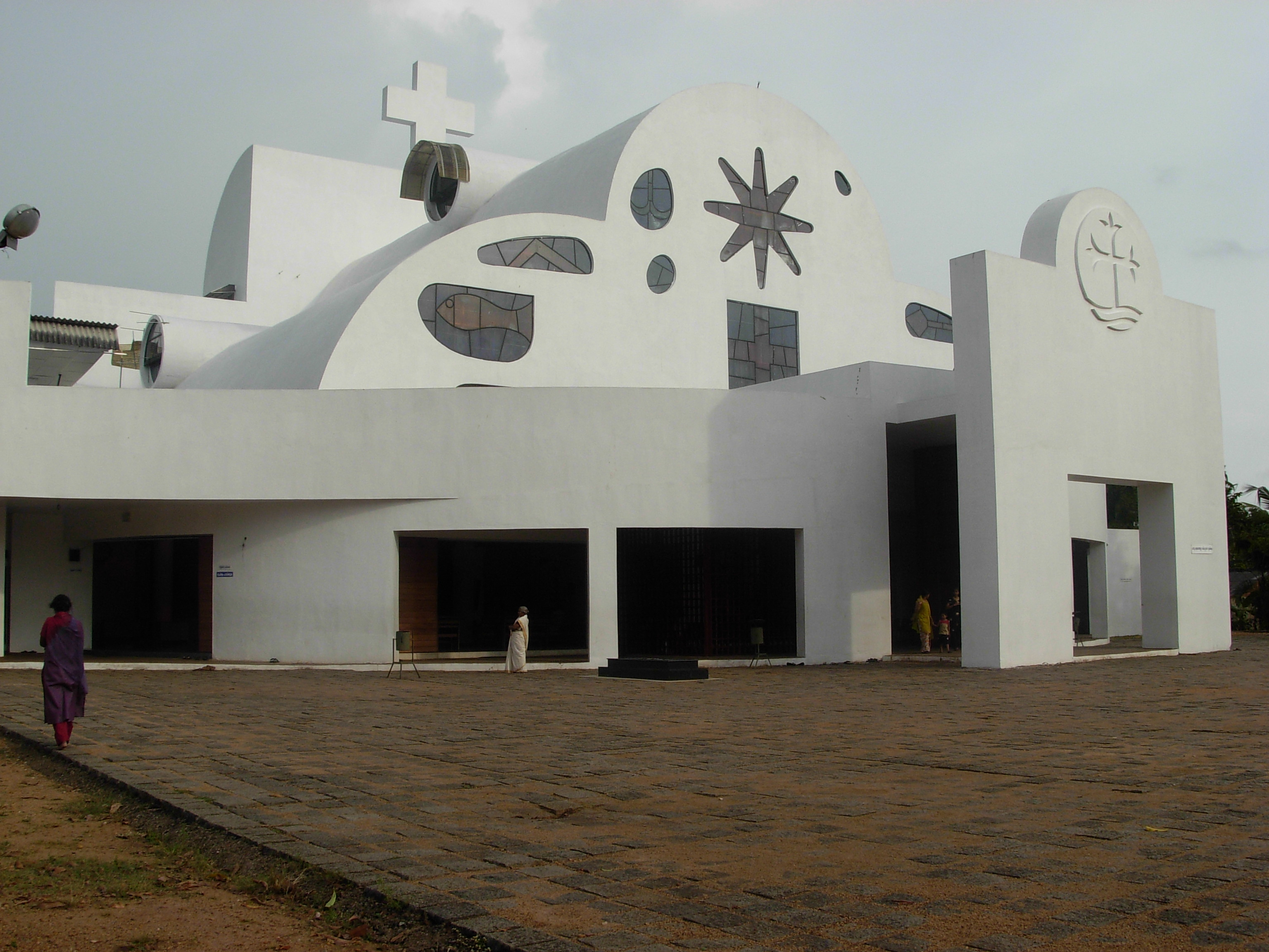 New Parumala Church